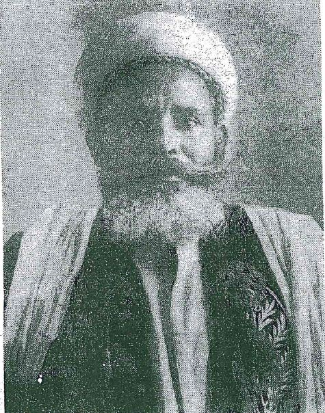 Sharif Aydurus Sharif Ali Al-Nudari, famous Somali scholar and historian.